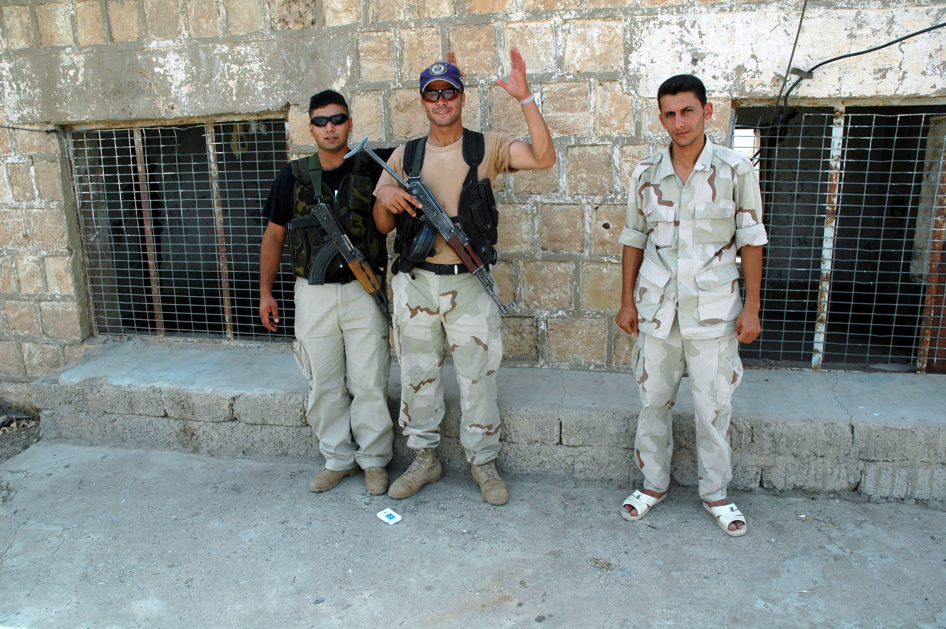 Three Kurdish Army PDK Peshmurga "Special Forces" Soldiers, two of which are armed with AK-47 7.62 mm short assault rifles, pose for a photograph at a mountain-top villa once used by Saddam Hussein outside of Erbil, in Northern Iraq, during Operation IRAQI FREEDOM.